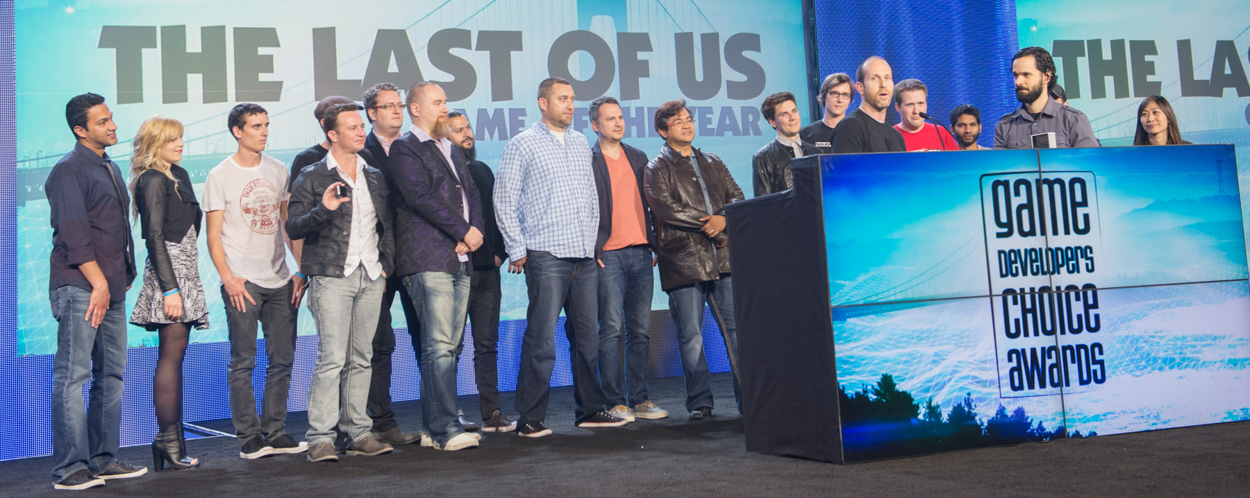 The Last of Us development team accepting the award for Game of the Year at the Game Developers Choice Awards in 2014.